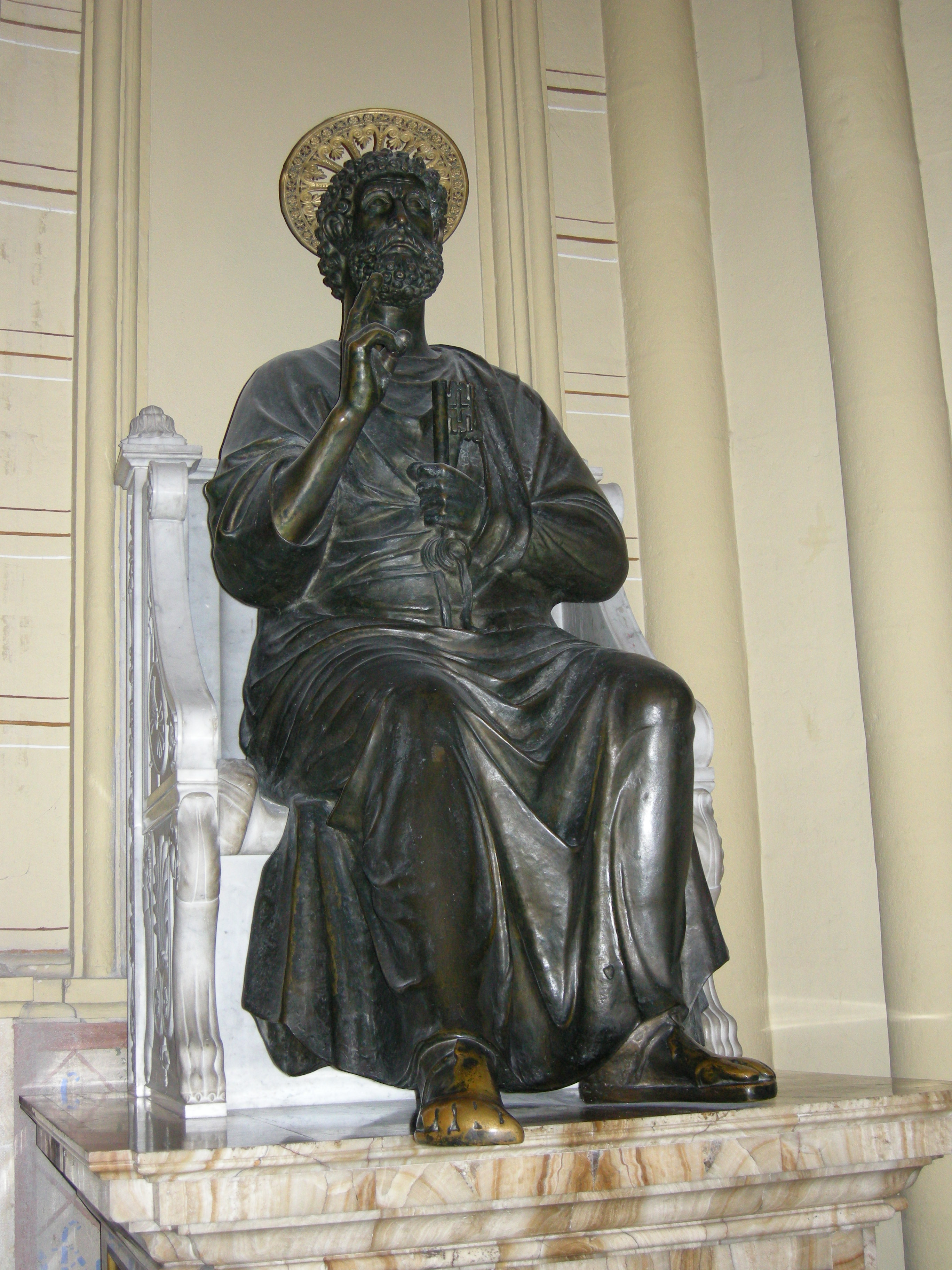 Visit in the Latin Patriarch of Jerusalem